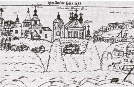 Lukh in XVII c